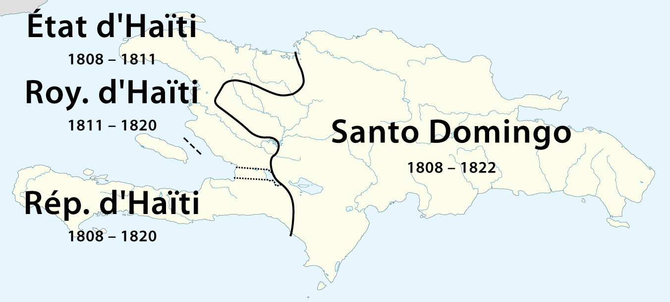 History of the teritorial changes of Hispaniola